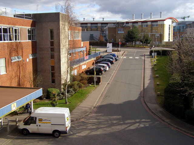 View from Princess Anne Hospital View from a window in Burley Ward, Princess Anne Hospital. The main entrance can be seen bottom left. The access road leads up to Coxford Road, with the rest of the General Hospital on the far side of the road. This photo was taken whilst awaiting the birth of my son, born in one of the Princess Anne theatres early the next morning.